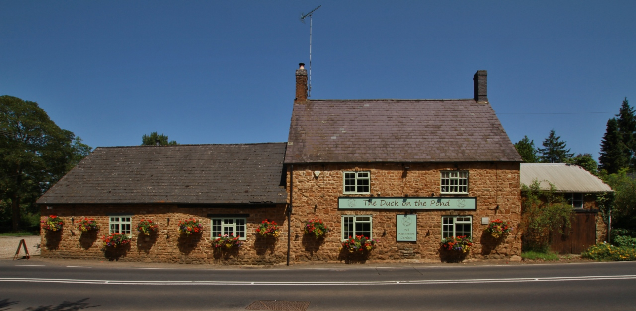 The Wykham Arms, South Newington, Oxfordshire, currently tradingas the Duck on the Pond